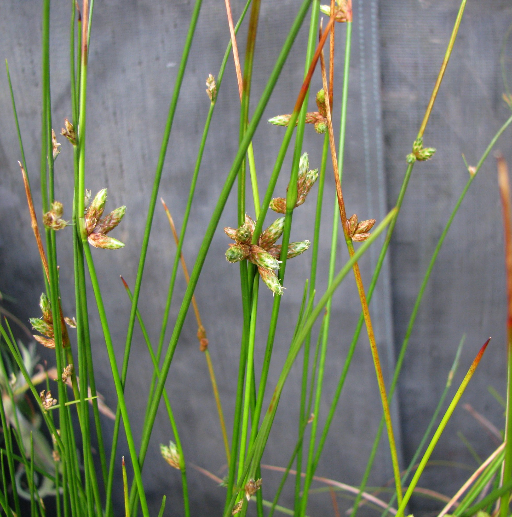 Kaluhā or Rock bulrush [syn. Schoenoplectus juncoides] Cyperaceae Indigenous to the Hawaiian Islands Oʻahu (Cultivated) NPH00006